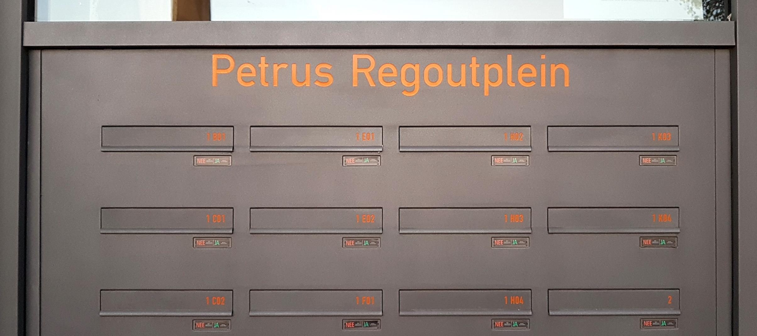 Letterbox at Petrus Regoutplein of new occupants of Eiffelgebouw, Maastricht, Netherlands.